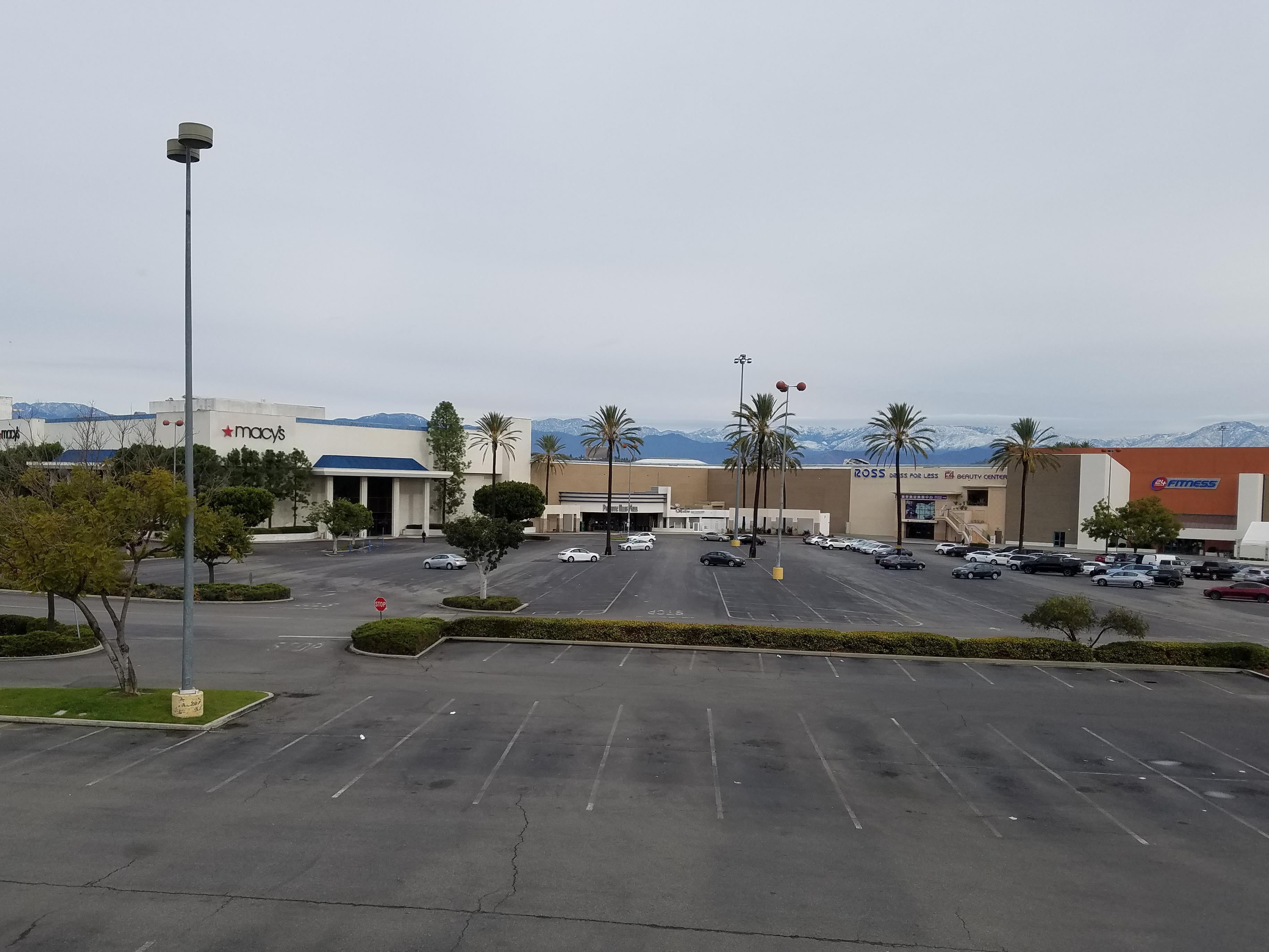 The southern side of Puente Hills Mall in December, 2019 as seen from Colima Road. To the north, in the background, are the snow dusted San Gabriel Mountains.